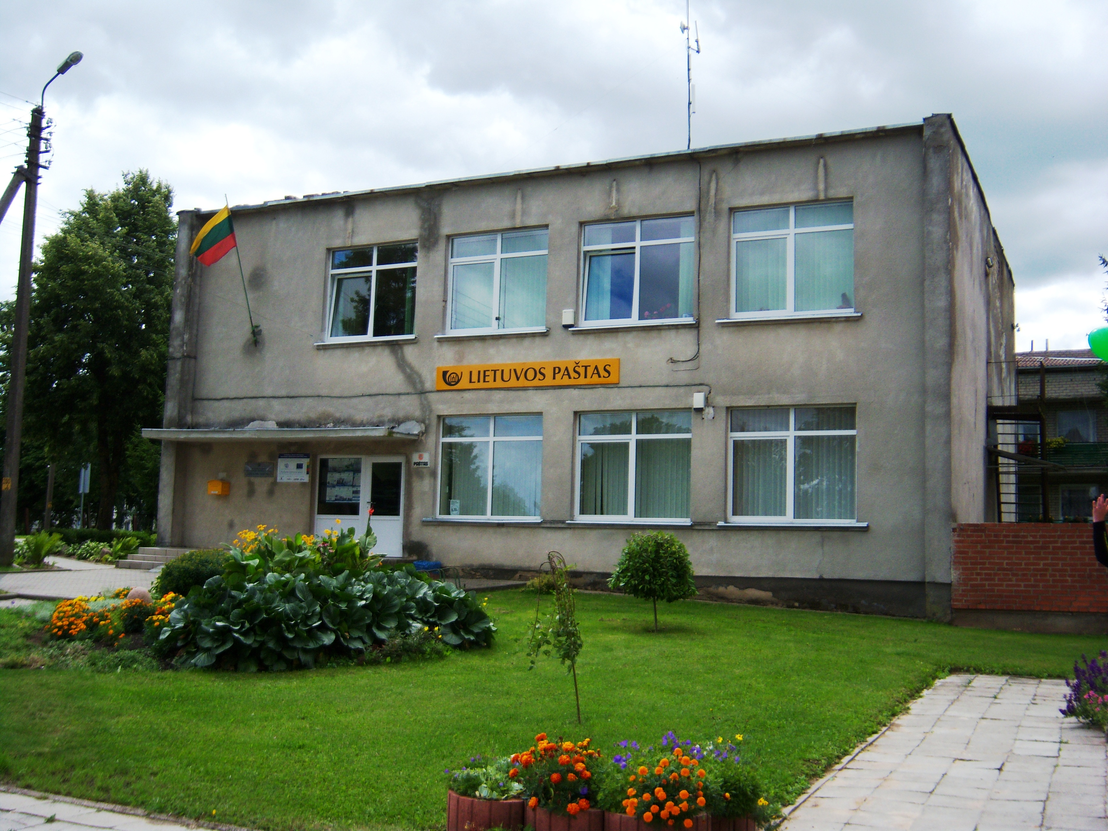 Girkalnis, Raseiniai District. Lithuania